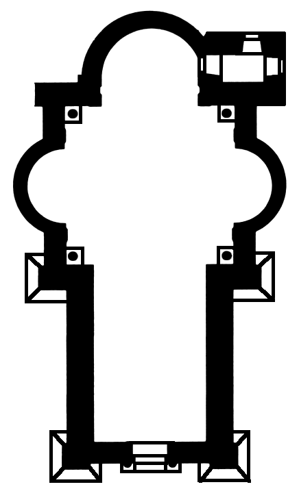 San Bernardino Church in Urbino. Map as it used to be at the end of 15th century. Now the main apse is squared.